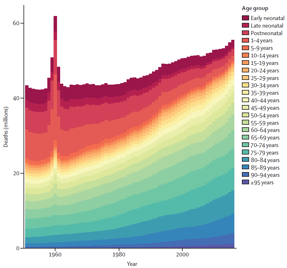 Each stacked bar represents the total number of deaths in the given year attributable to each age group, from 1950 to 2017, for both sexes combined. The early neonatal age group is 0–6 days, late neonatal is 7–27 days, and postneonatal 28–364 days.